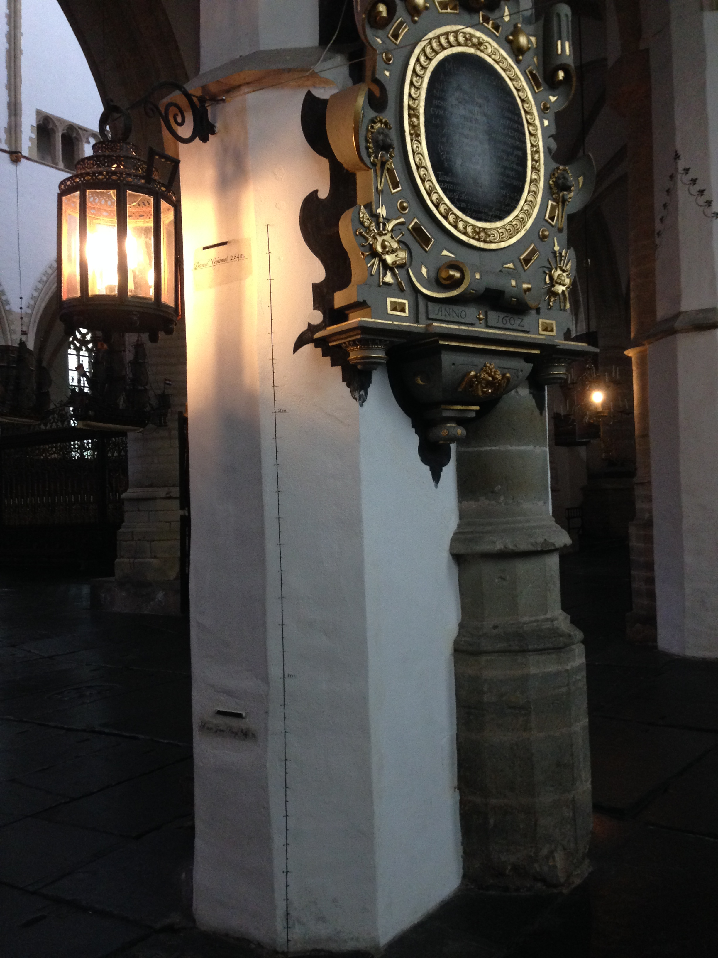 Pillar in the St. Bavochurch as mentioned in the Daniel Cajanus article